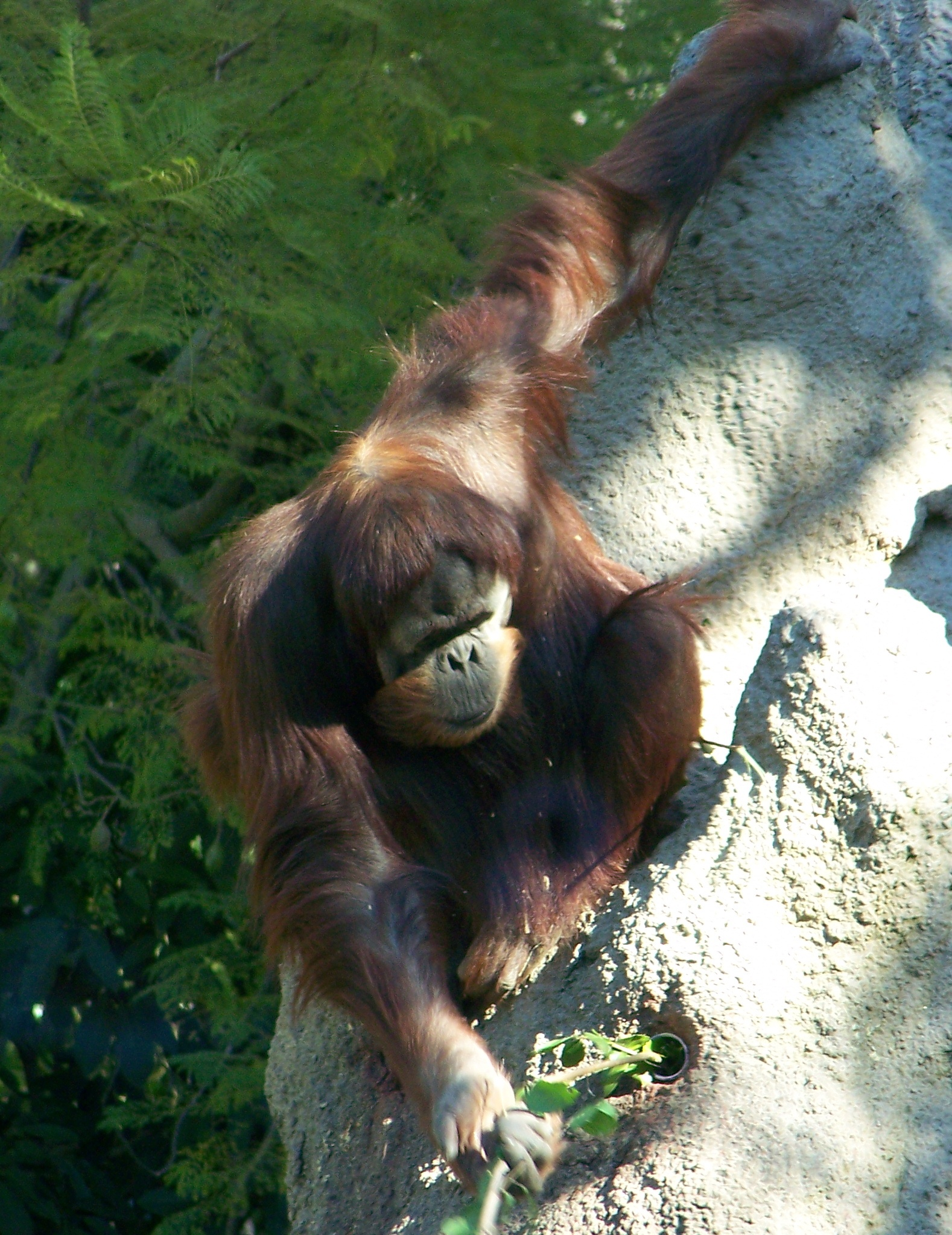 An orangutan using a branch to get to insects at the San Diego Zoo